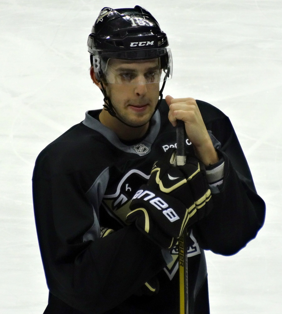 Center Brandon Sutter pauses during the Pittsburgh Penguins' final practice session before the start of the lockout-shortened 2012-13 NHL season, Friday, January 18, 2013 at Consol Energy Center in Pittsburgh, PA.